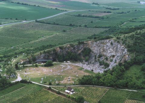 Nagyharsány, Hungary, aerialphotography